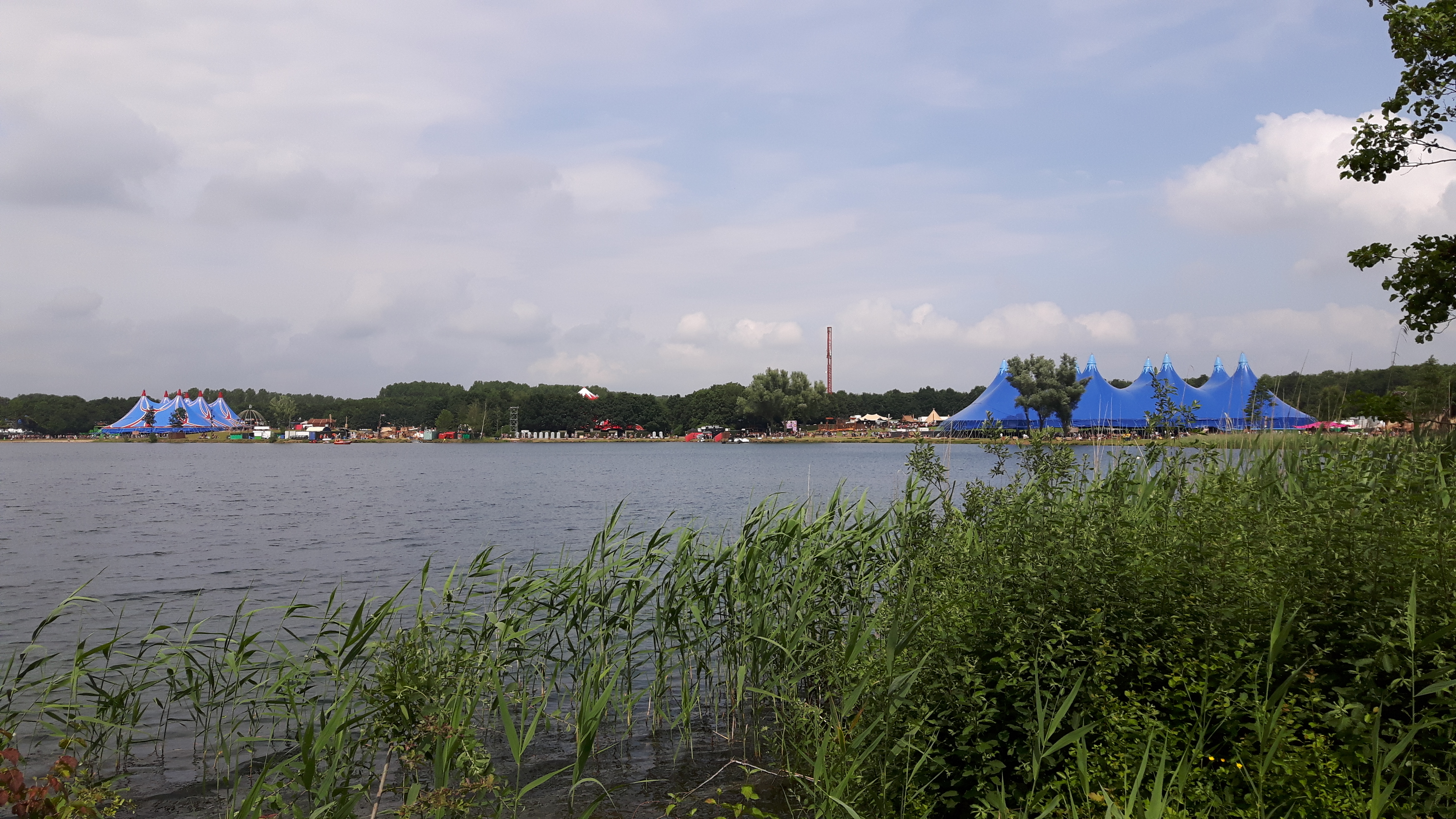 The Groene Heuvels during Down The Rabbit Hole 2016